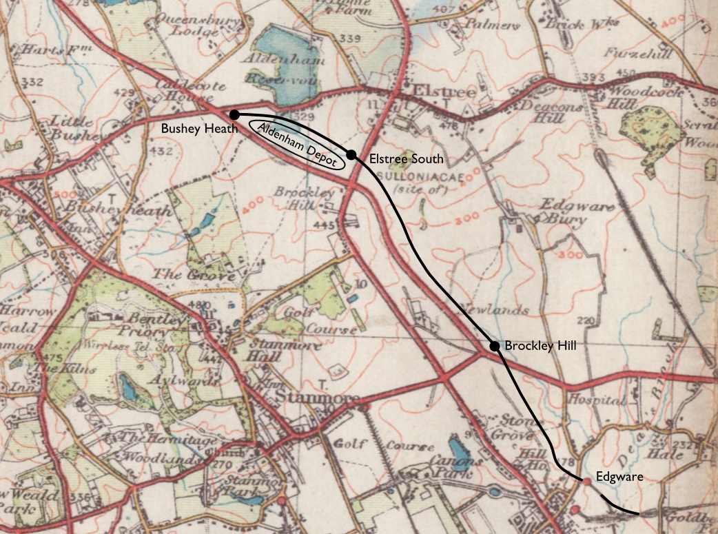 Route of the unbuilt extension of the London Underground's Northern line from Edgware to Bushey Heath. The extension was planned in the mid 1930s, but construction work was postponed when World War II started and was cancelled in the early 1950s. Map shows existing Edgware station, planned route of new line, locations of proposed stations at Brockley Hill, Elstree South and Bushey Heath and the location of the new train depot at Aldenham. Road improvement schemes in the areas around Bushey Heath and Elstree South stations led to their positions being altered slightly before the project was cancelled.